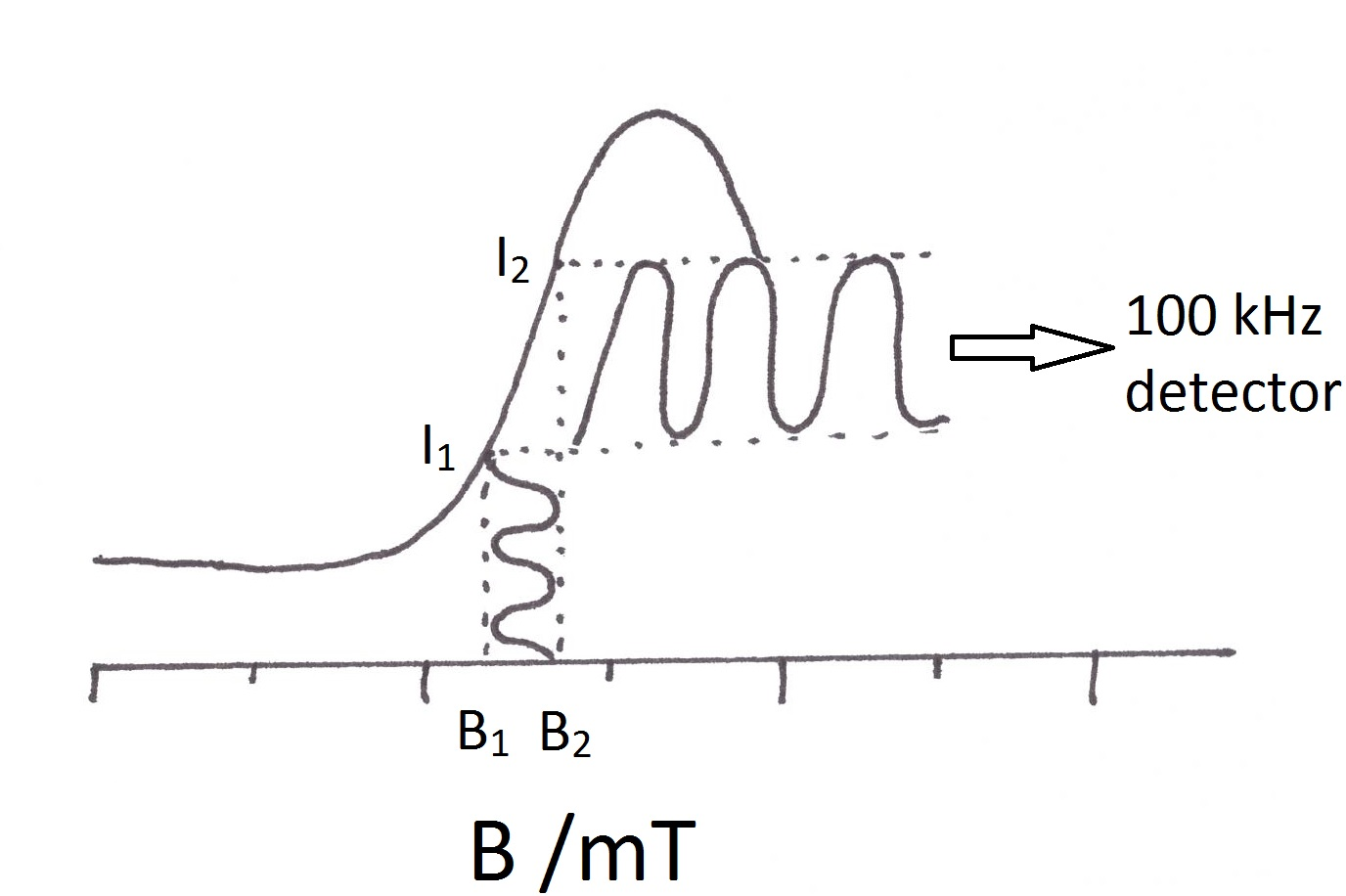 Depicts field modulation in the continuous wave electron paramagnetic resonance experiment.